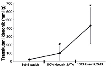 TcpO2_in_; 21% oxygen 1 atm, 100% oxygen 1 atm, 100% oxygen 2 atm (HBOT)